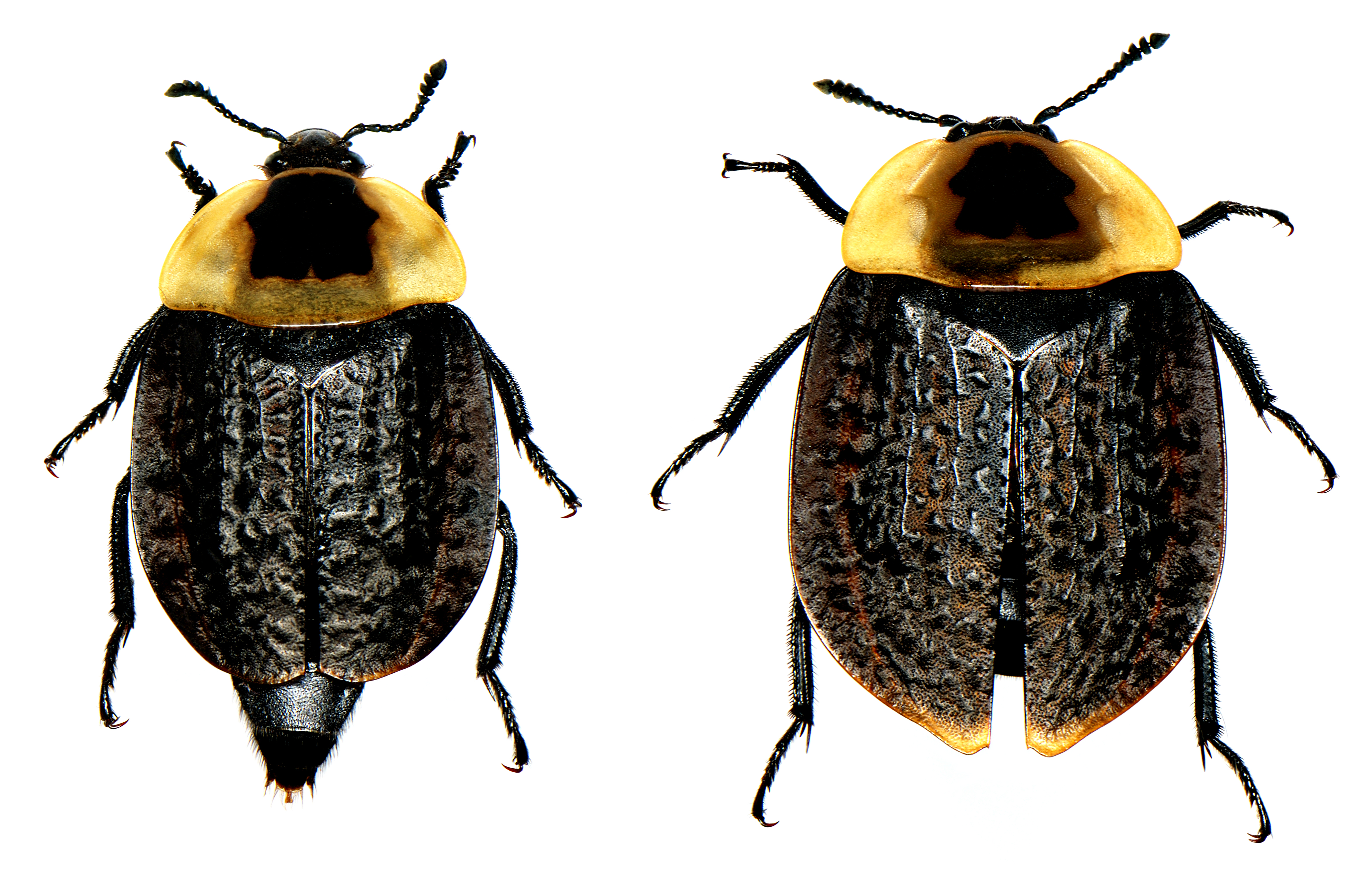 A pair of Necrophila americana (Linnaeus), the American carrion beetle, which is attracted to dead animal carcasses. These individuals were collected in USA: Connecticut: Middlesex County: Killingworth, in a pitfall trap baited with a dead chipmunk at the interface between a meadow and a forested area with mixed conifers and hardwoods, 28-May to 31-May-2011, collector M.K. Oliver, in collection of same. A male (left) and female are shown at the same scale; note that the female has the elytral apices produced. Male 17.3 mm, female 19.2 mm from front of head to tips of elytra.